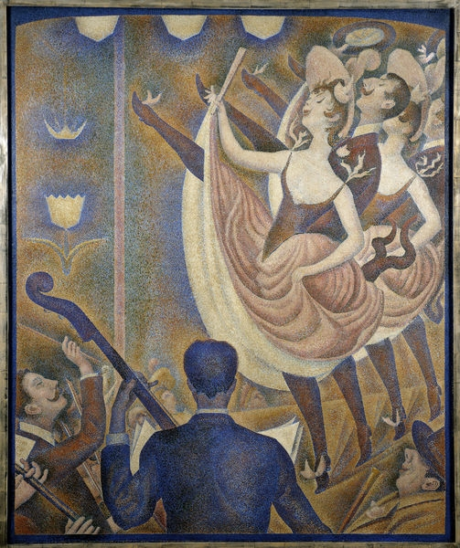 Can-can